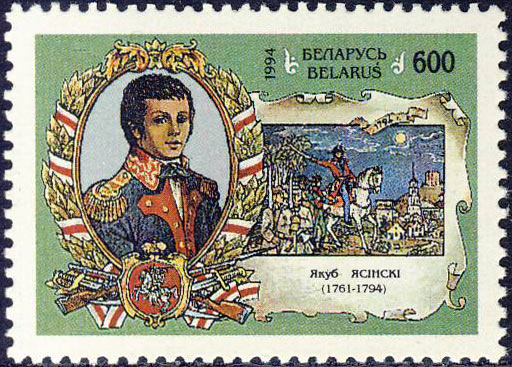 Jakub Jasiński (1761-1794) was a Polish-Lithuanian general and poet. He participated in the War in Defense of the Constitution in 1792, was an enemy of the Targowica Confederation and organized an action against its supporters in Wilno. He was killed in the Battle of Praga in 1794.